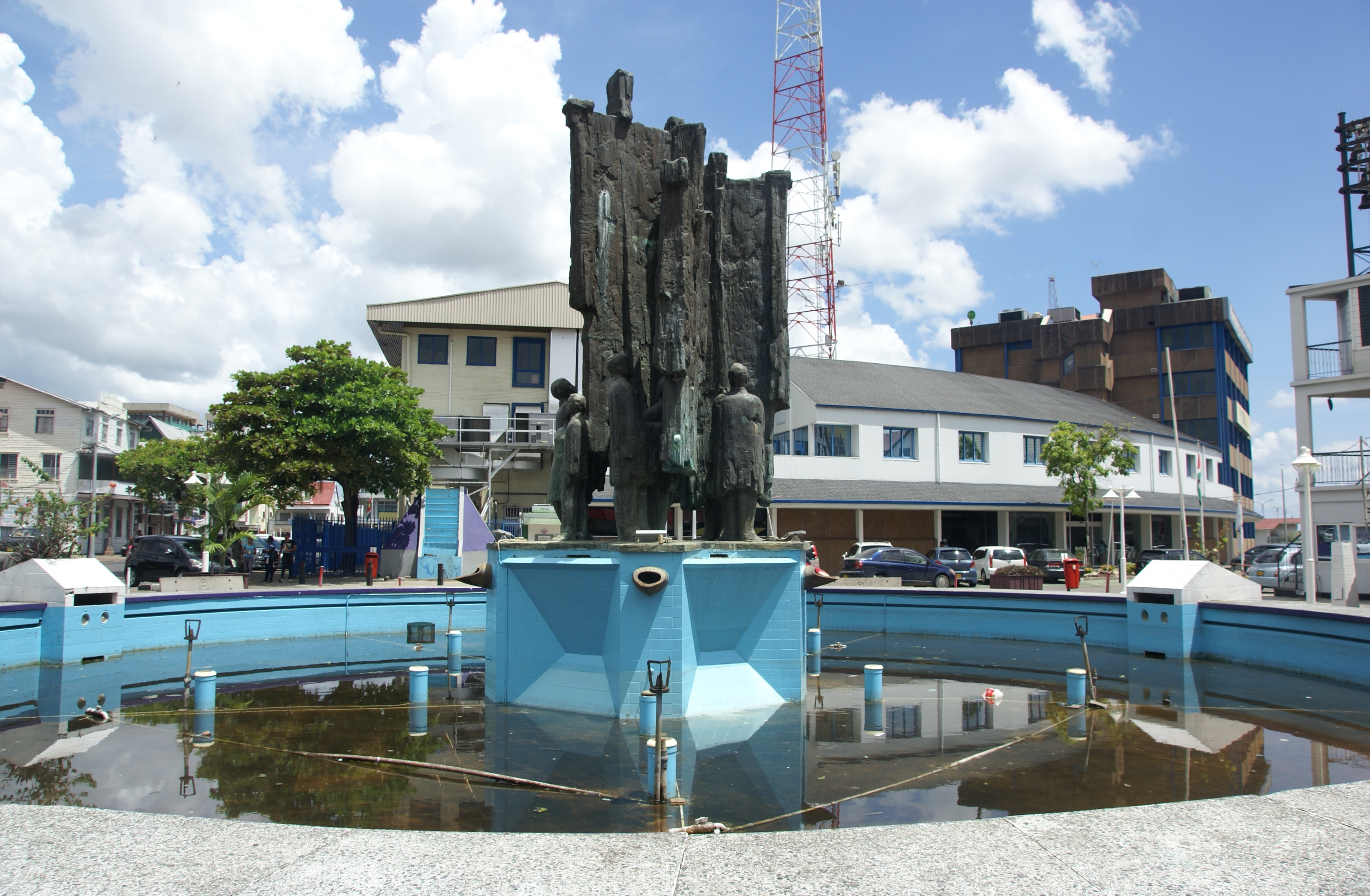 Monument for the Colonial Parlement, Vaillantsplein, Paramaribo, Surinam. By Stuart Robles de Medina (1966).